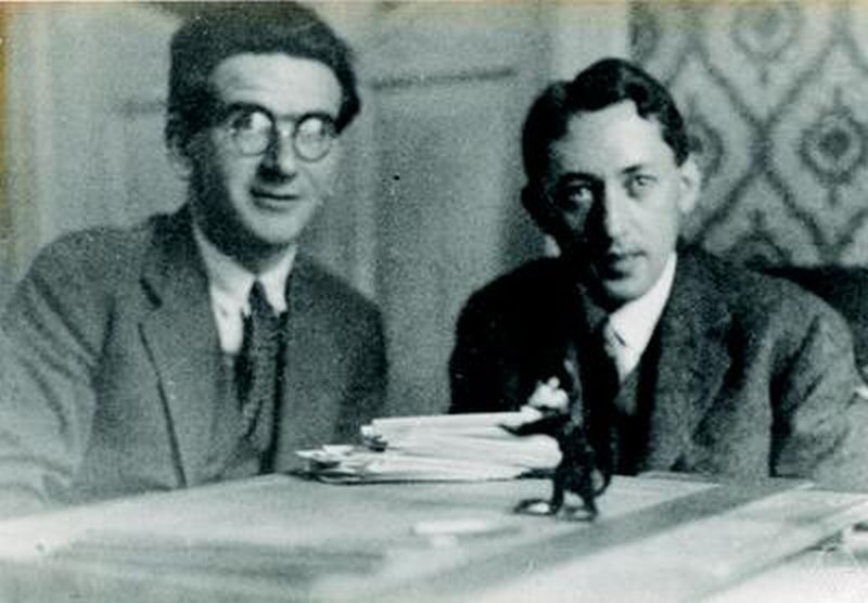 Charles Loewner (right) 1927